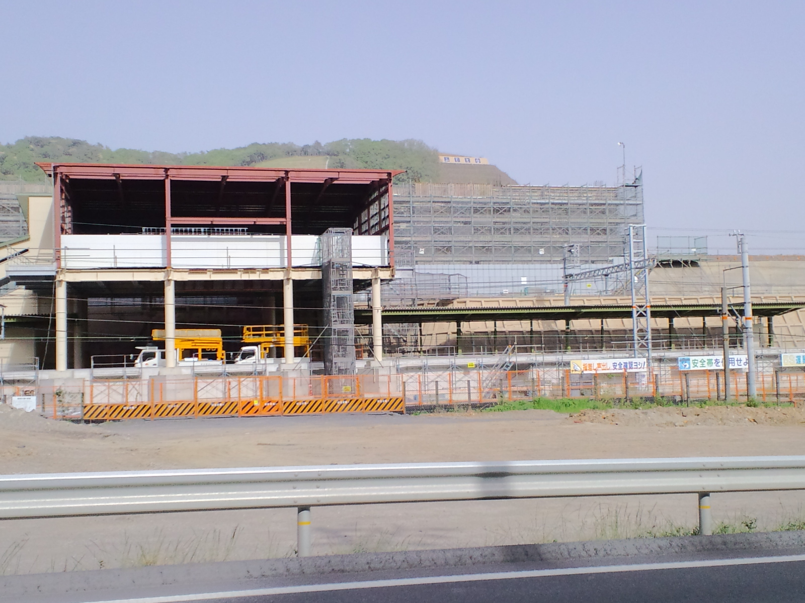 Nankai Wakayama-Daigaku-mae Station under construction